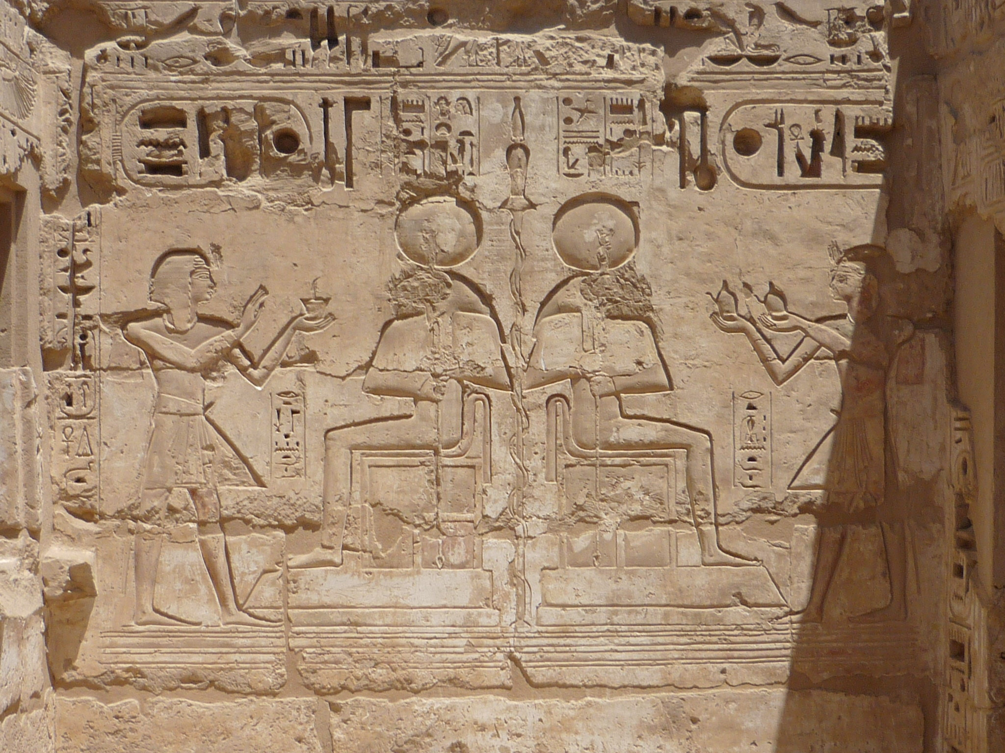 Wall relief of Ramses III offering gifts at Amun-Ra, mortuary temple of Ramses III, Medinet Habu, Theban Necropolis, Egypt